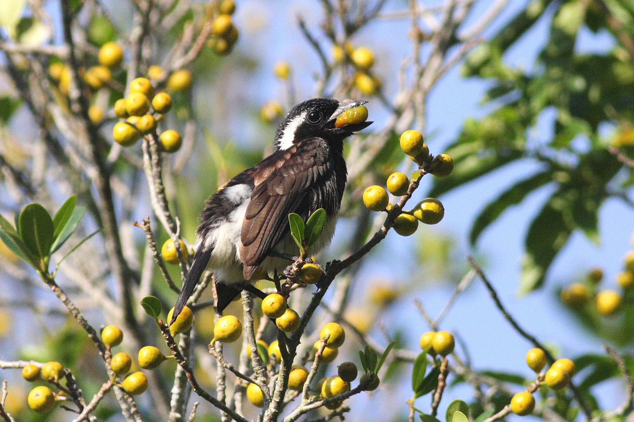 White-eared Barbet in St. Lucia, KwaZulu-Natal, feeding on fruit of the Natal fig. The barbet is resident in South Africa, where they are limited to the coastal forest belt of northern KwaZulu-Natal, as far south as Durban. They are locally common and to be found in small flocks, and may roost communally in nest holes. Fruit and insects constitute their diet.